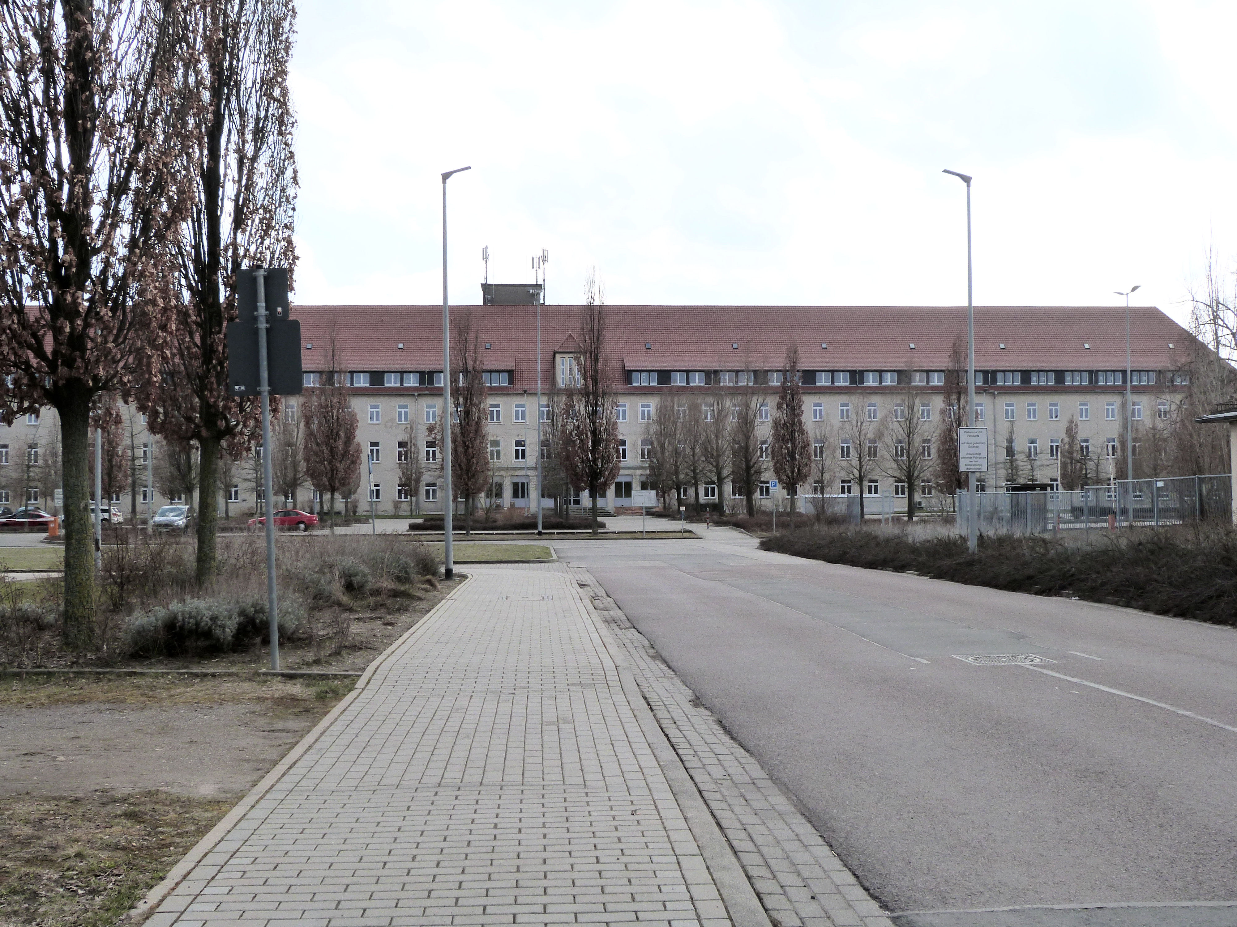 Former Fliederweg Barracks, Halle (Saale), built in 1938, city quarter Südstadt